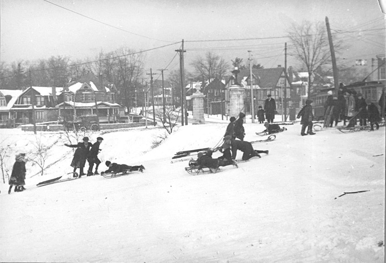 Children sledding in High Park, Toronto, Canada. This hill is just west of Howard Park Avenue and Parkside Drive, at High Park streetcar loop.